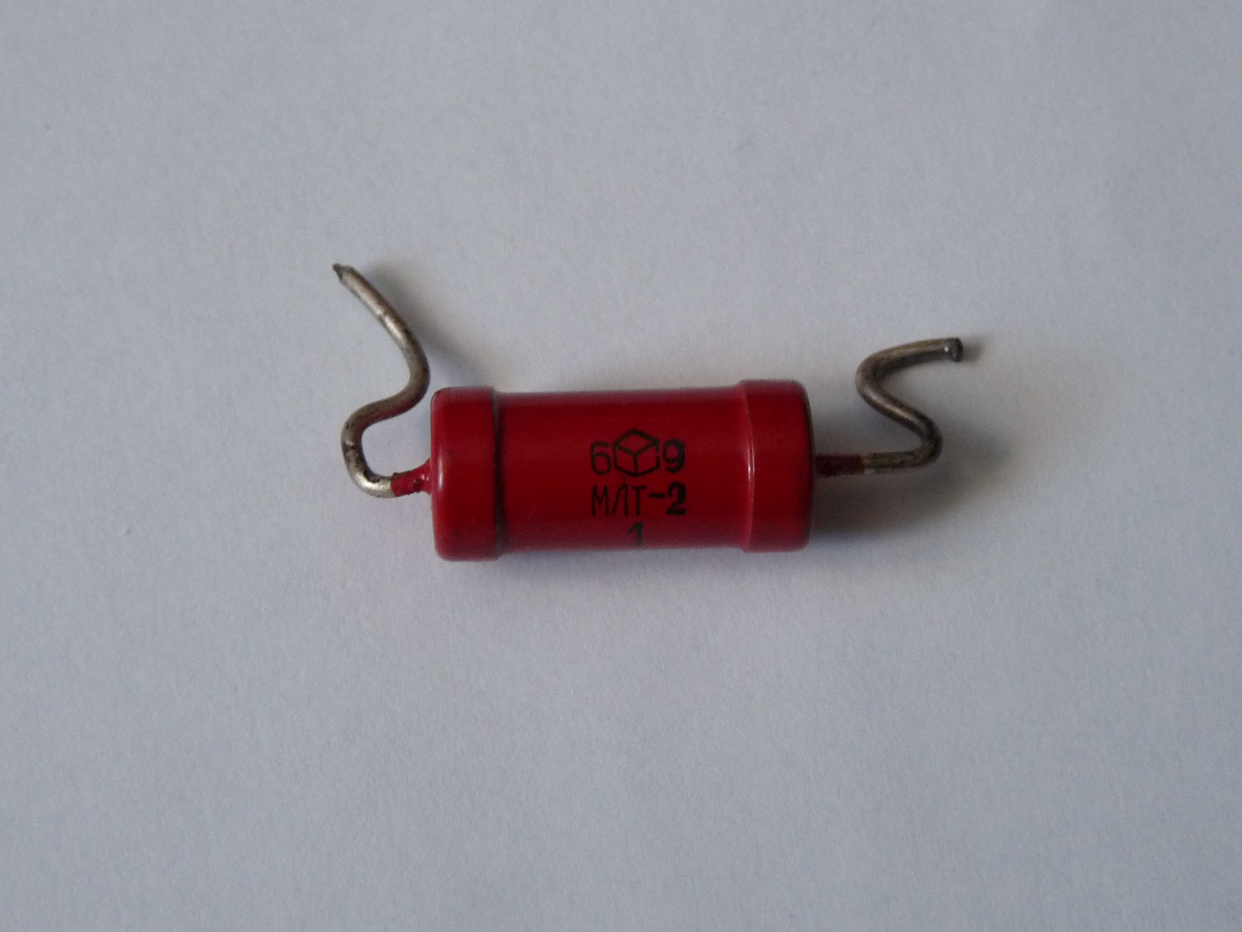 USSR resistor MLT 2W